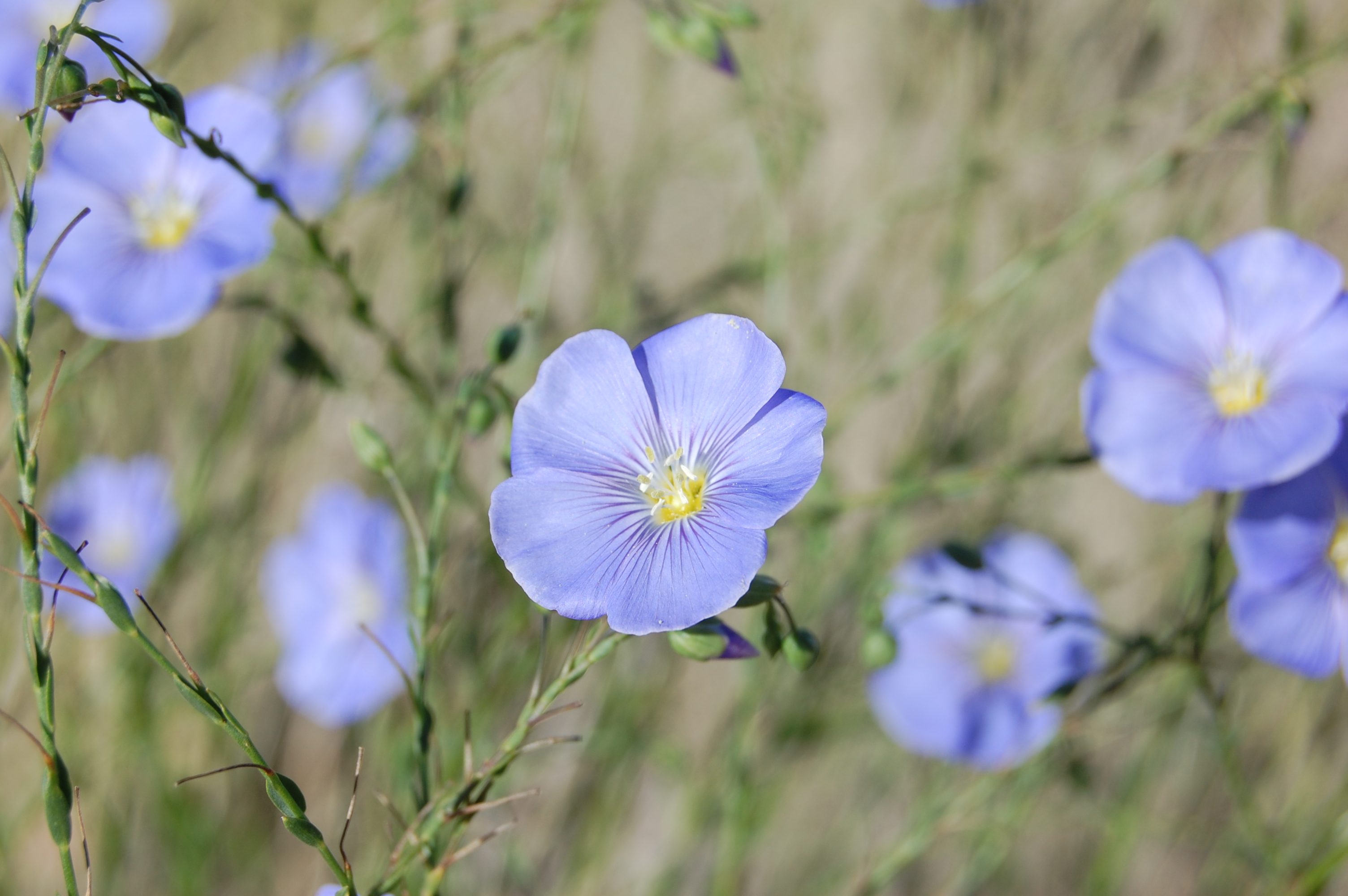 Photo of a Blue flax flower taken in Elena Gallegos Picnic Area, Albuquerque, NM. Nikon D40, with 18-55 mm f/3.5-5.6GII ED AF-S DX Zoom-Nikkor Lens, auto no-flash mode. Image saved by D40 as JPEG fine, large.